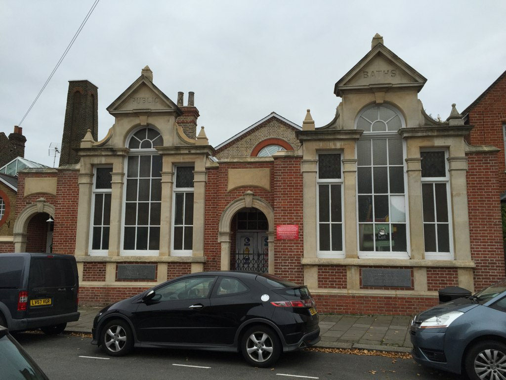 Brentford public baths